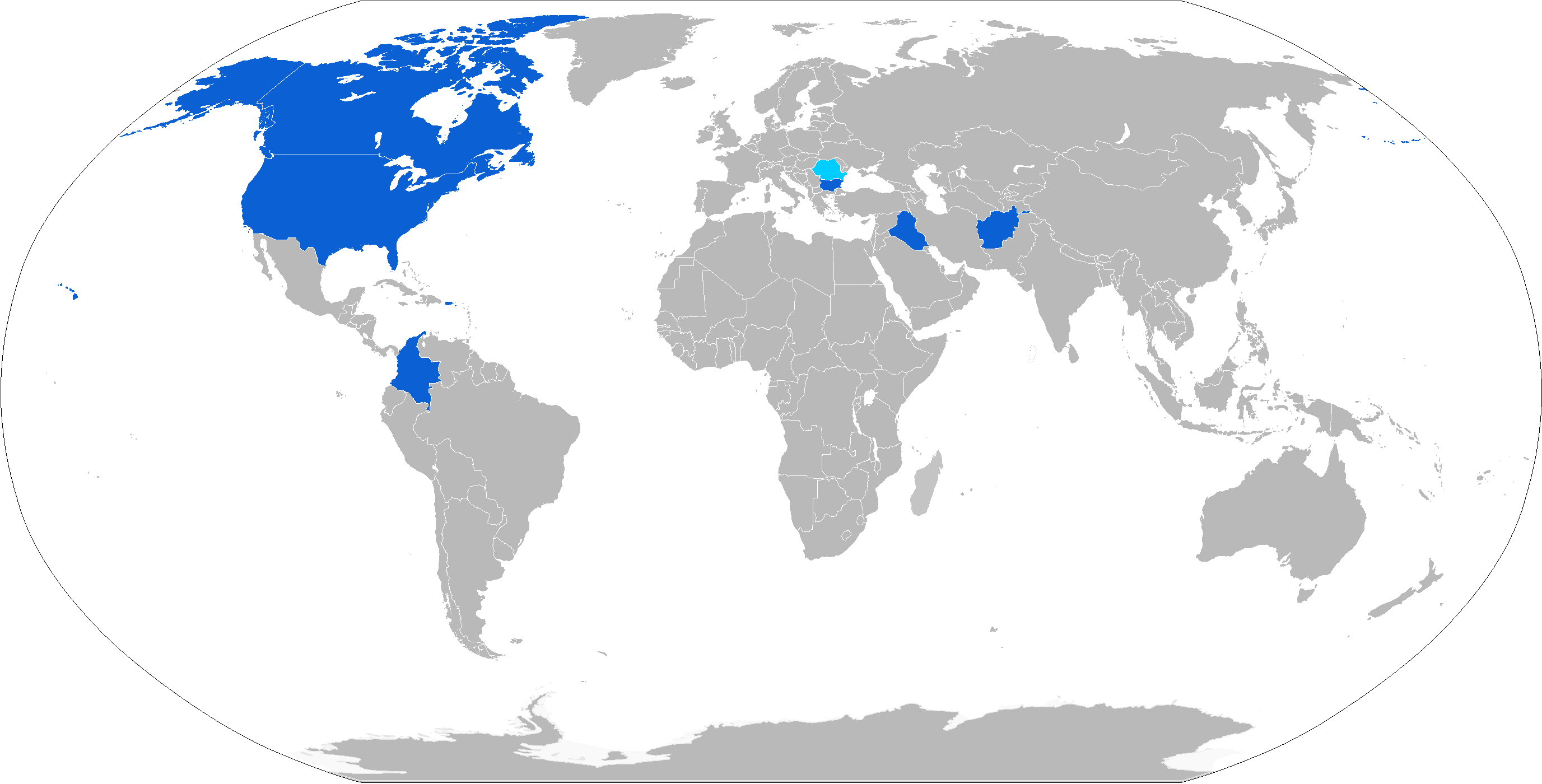 Map with Textron M1117 Armored Security Vehicle operators in blue, with locally produced operators in light blue